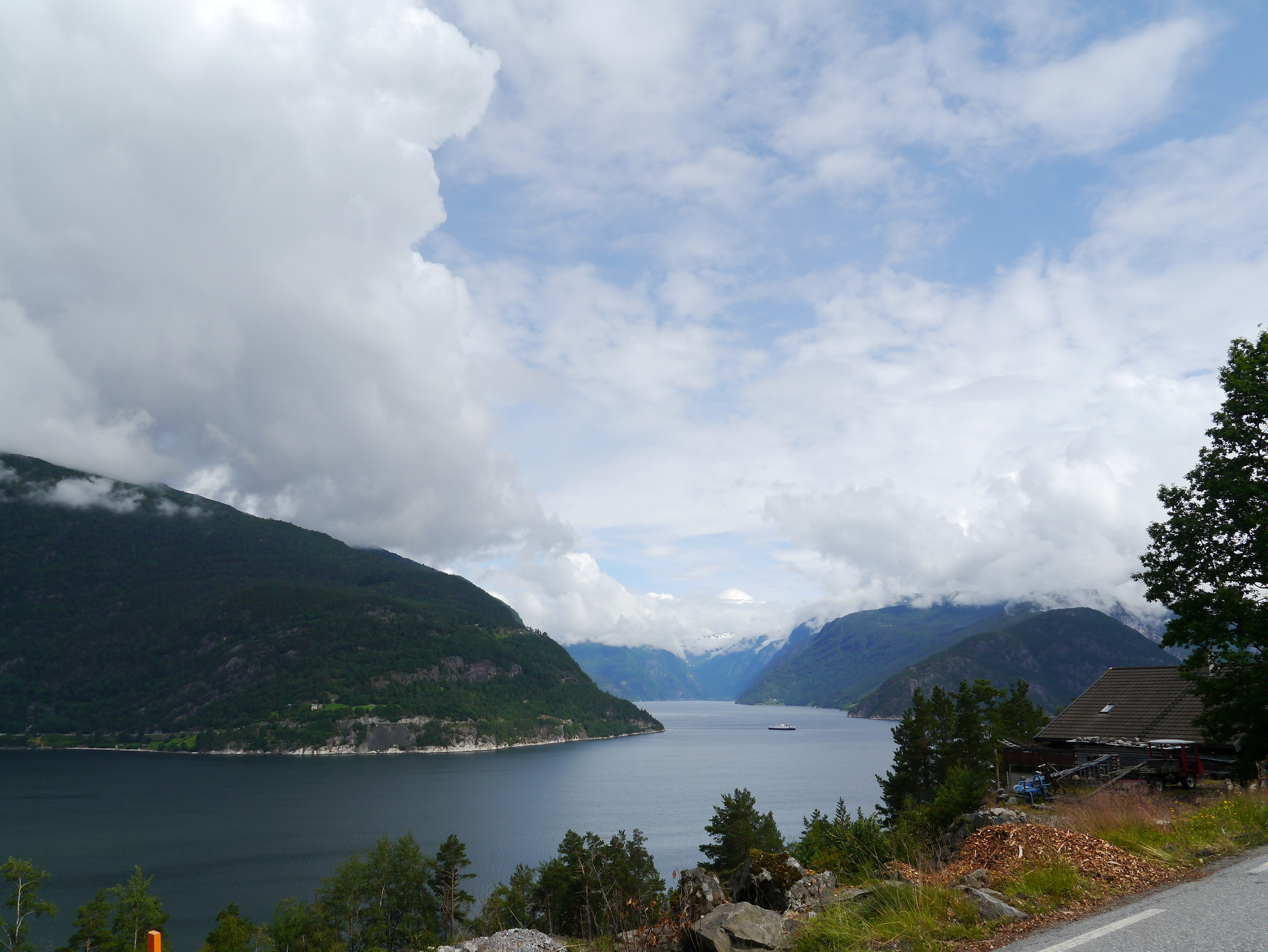 along Hardangerfjorden, Hordaland County, Western Norway